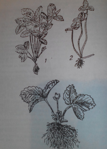 skica zivica jagode spremne za sadjenje